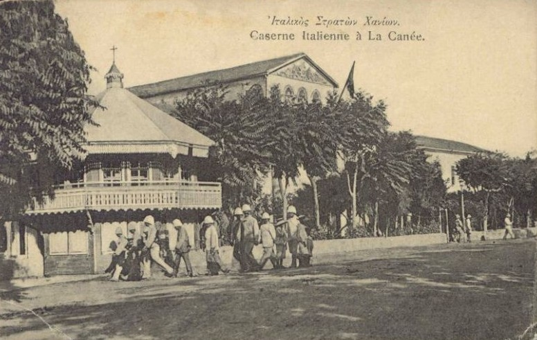 From 1898 until the formal annexation of Crete to Greece in 1913, the Four Powers (UK, France, Italy, Russia) exercised an international trusteeship over the island and maintained troops in what was known as the Autonomous State of Crete.